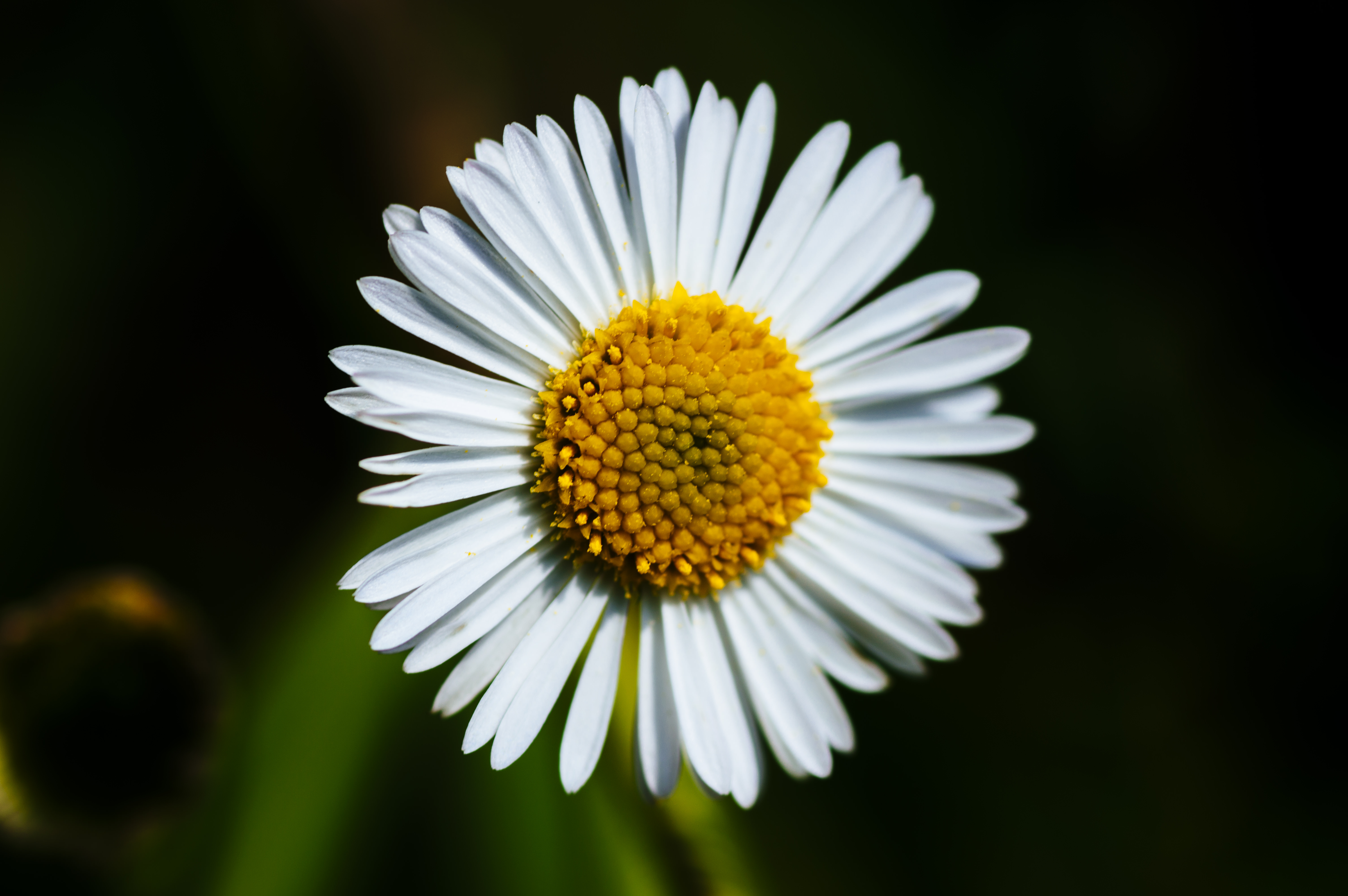 Morgan House Kalimpong